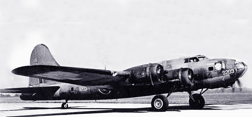 B-17 42-6101.